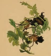 Stainton’s Natural History of the Tineina (1855–1873): Agonopterix parilella a leaf of Peucedanum oreoselinum twisted by larva